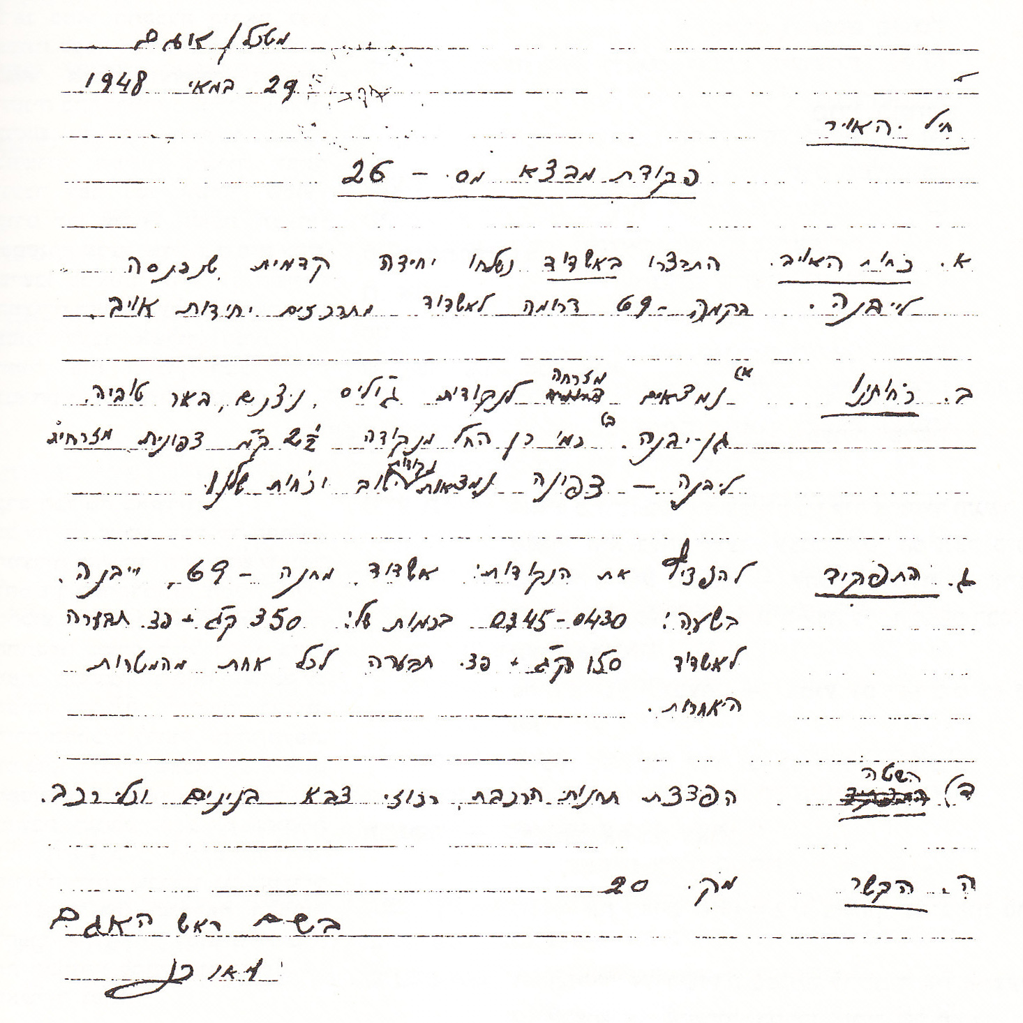 Operational order for the first Israeli air strike that used actual fighter aircraft (Avia S-199) on May 29, 1948.